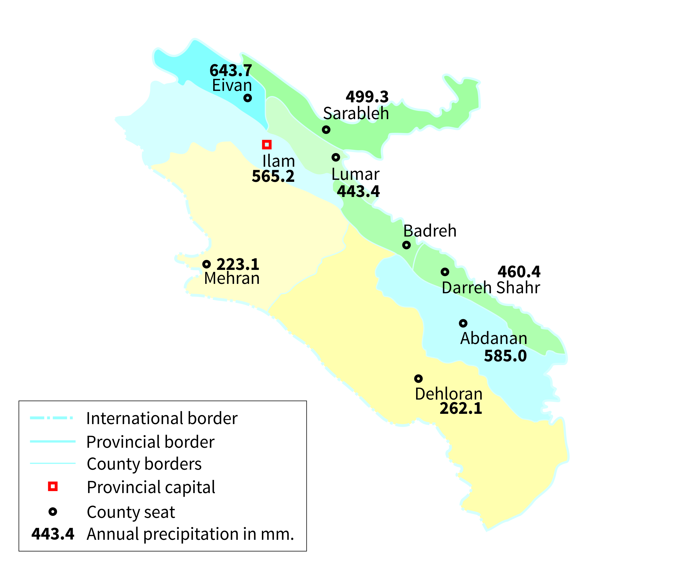 The map shows the long-term average annual precipitation of county seats of Ilam province.